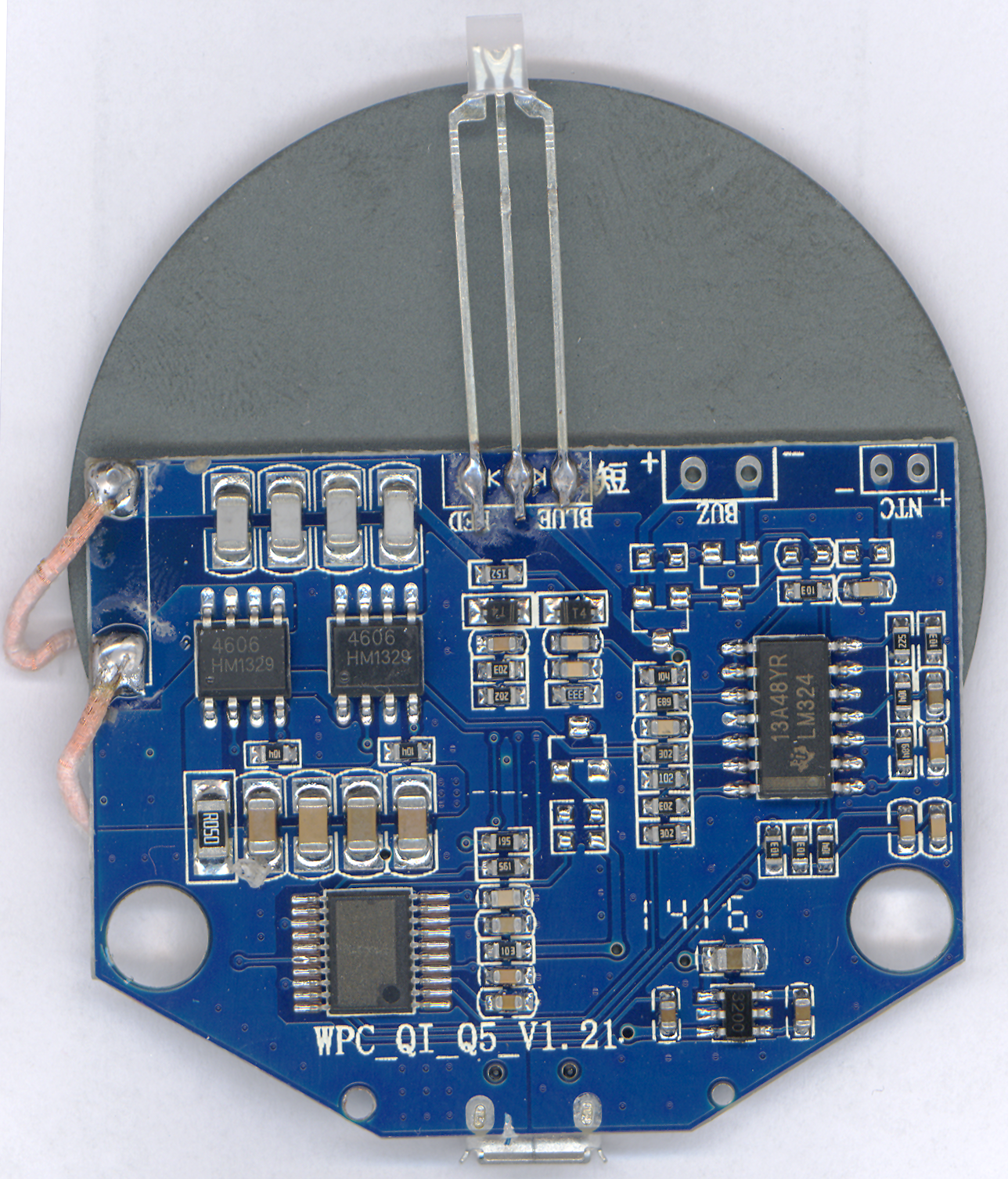 Bottom side of a QI charger's PCB